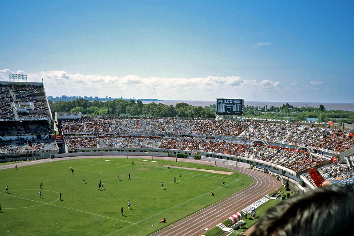 Photograph taken before the remodeling for the FIFA World Cup 1978. Only one tier of the Sivori stand was built.